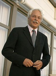 Thomas Roth (journalist)